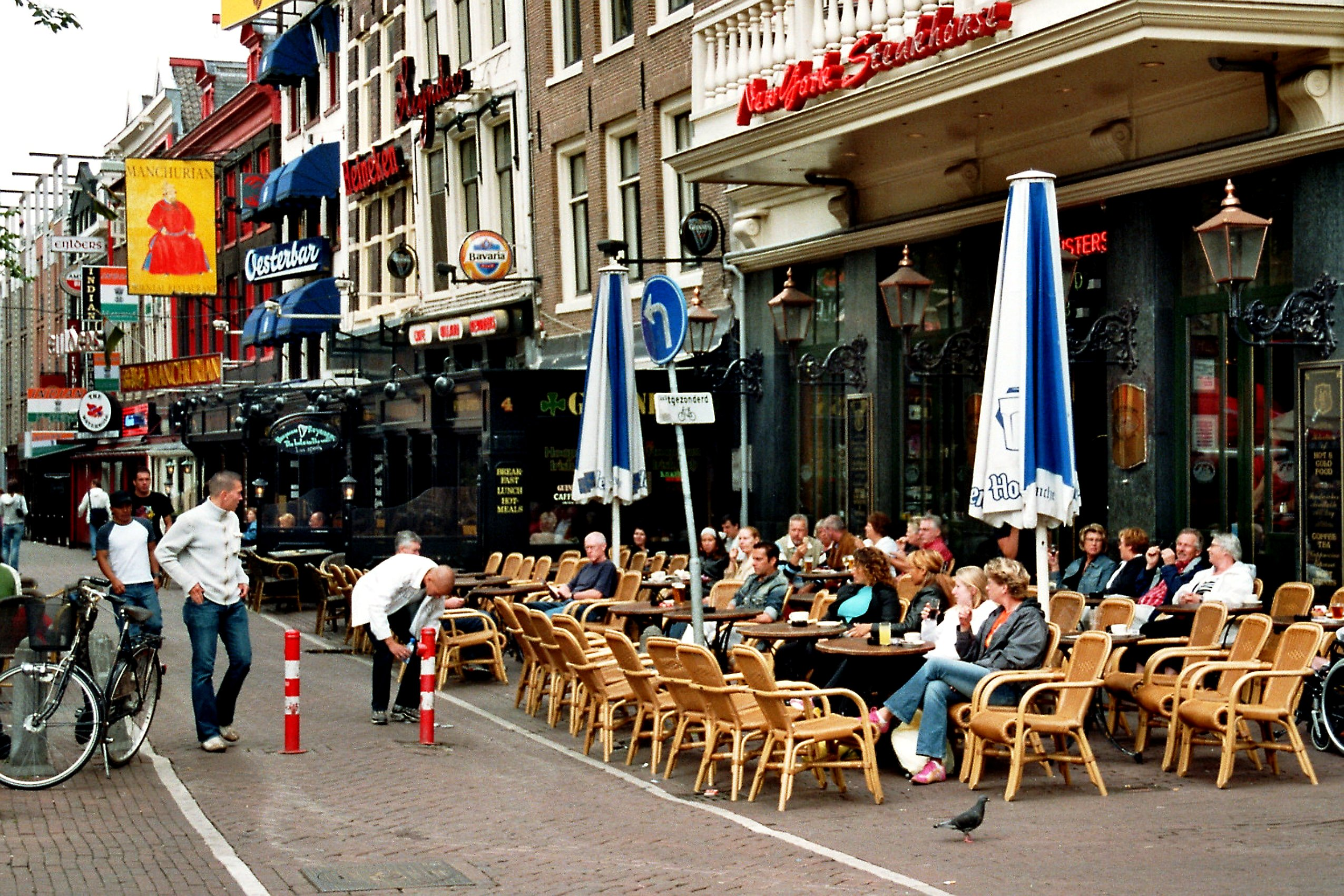 Amsterdam, on the Leidseplein